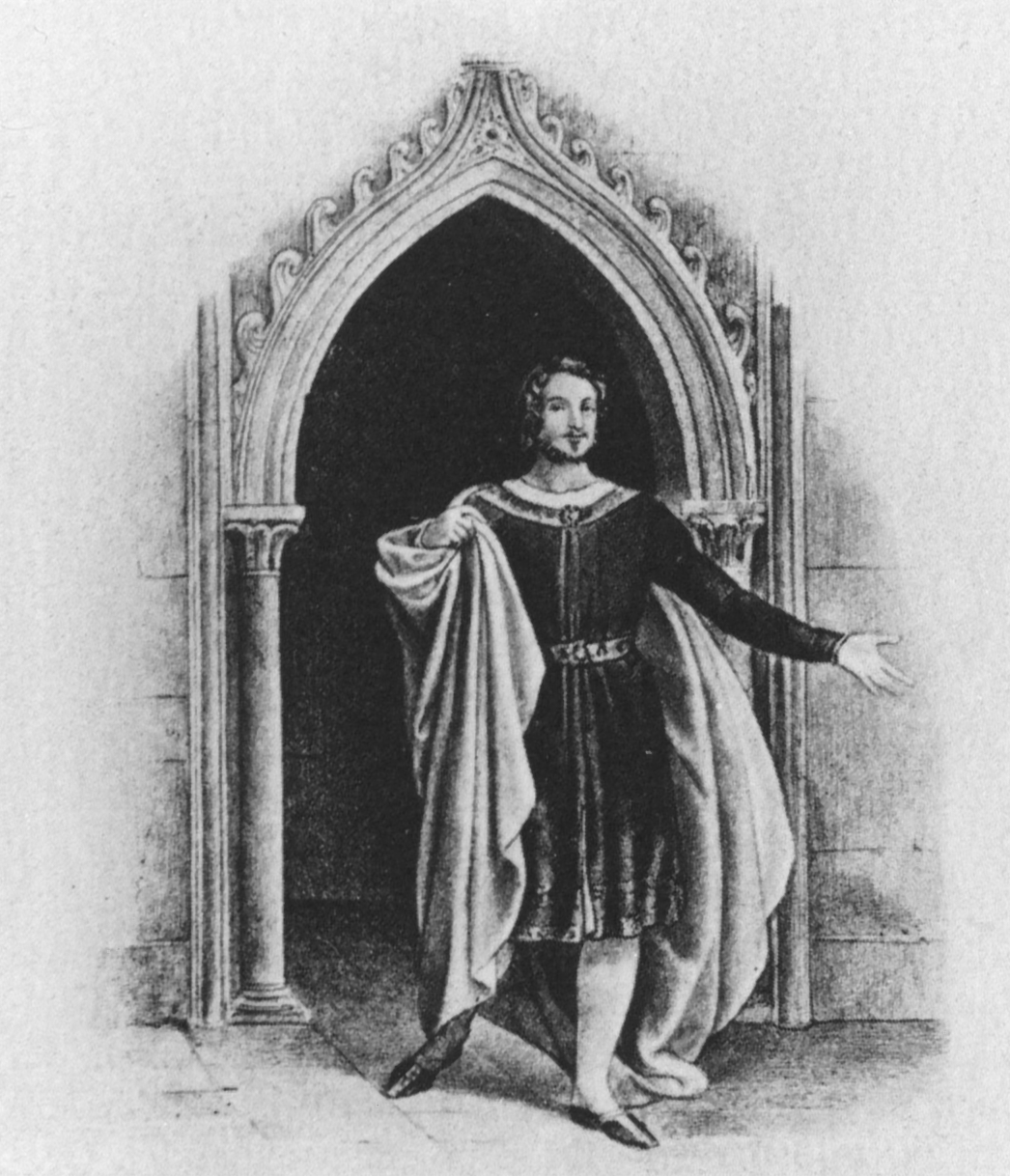 Antonio Tamburini as Valdeburgo in Bellinis La straniera, Milan 1829